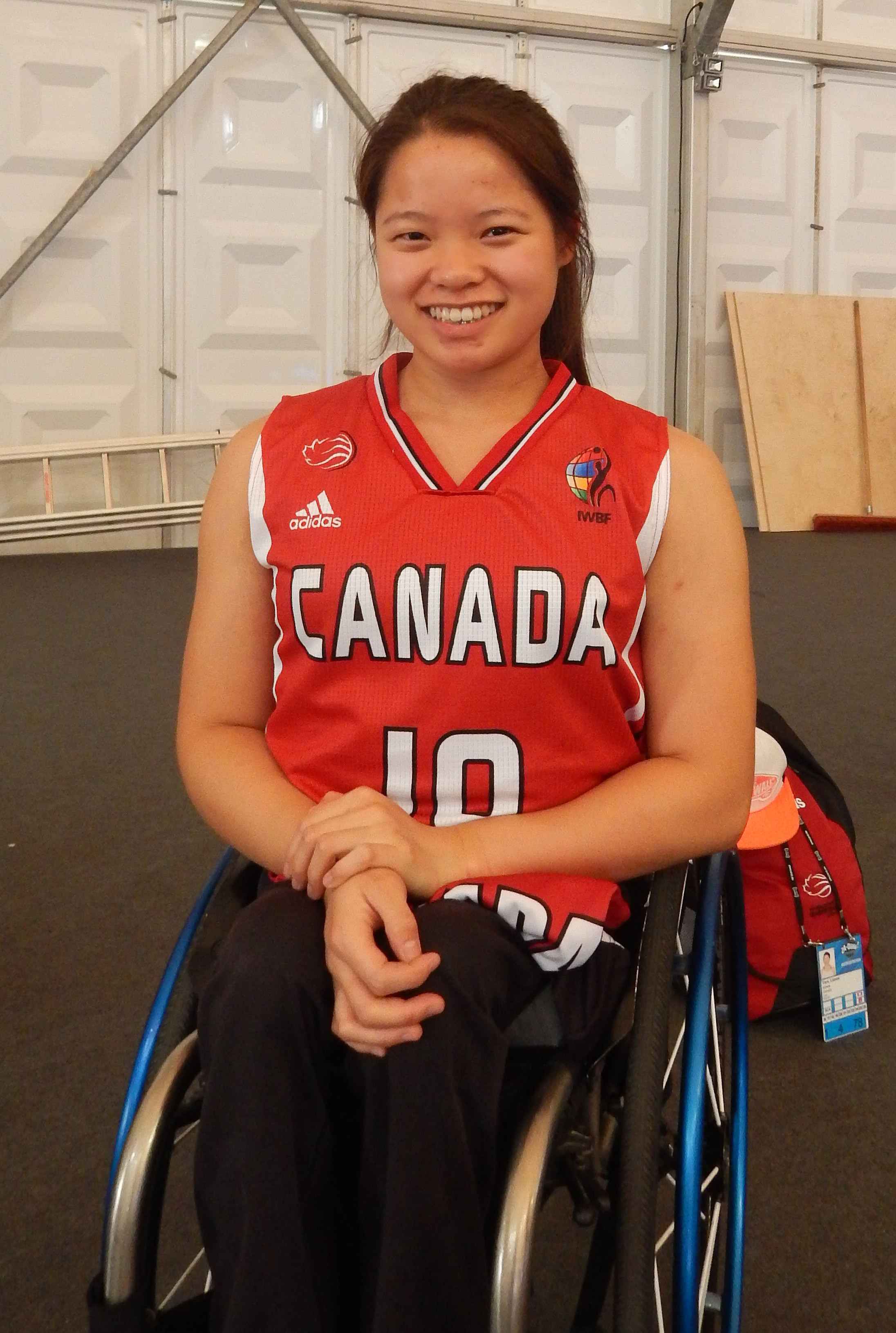 Canada No. 10 - Puisand Lai at the 2018 World Wheelchair Basketball Championships in Hamburg, Germany